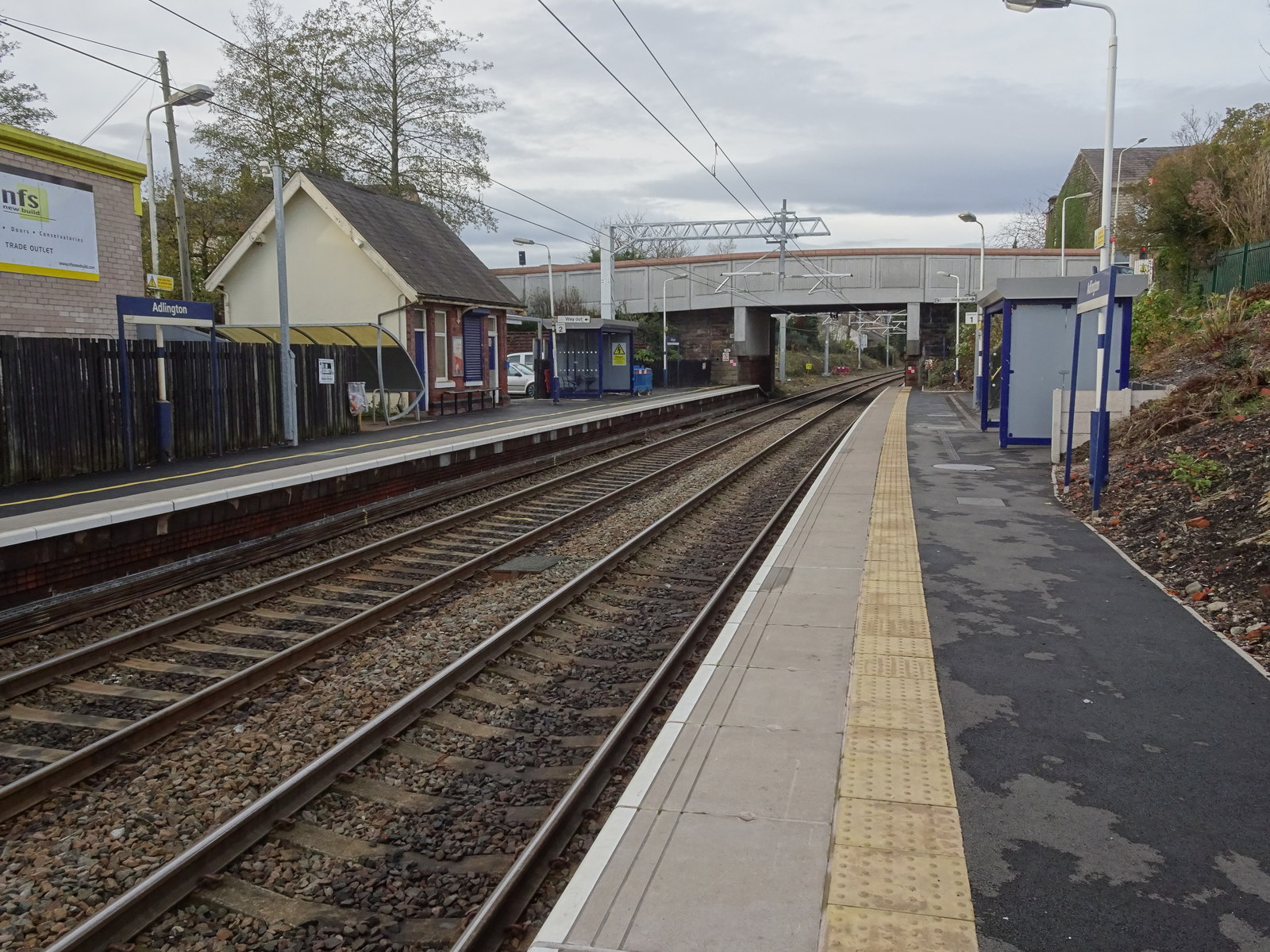 Adlington railway station, LancashireOpened in 1841 by the Bolton and Preston Railway, later part of the Lancashire & Yorkshire Railway. View north west towards Chorley and Preston, shortly after the line was electrified. The two-storey main station building used to be between the remaining brick building and the bridge.